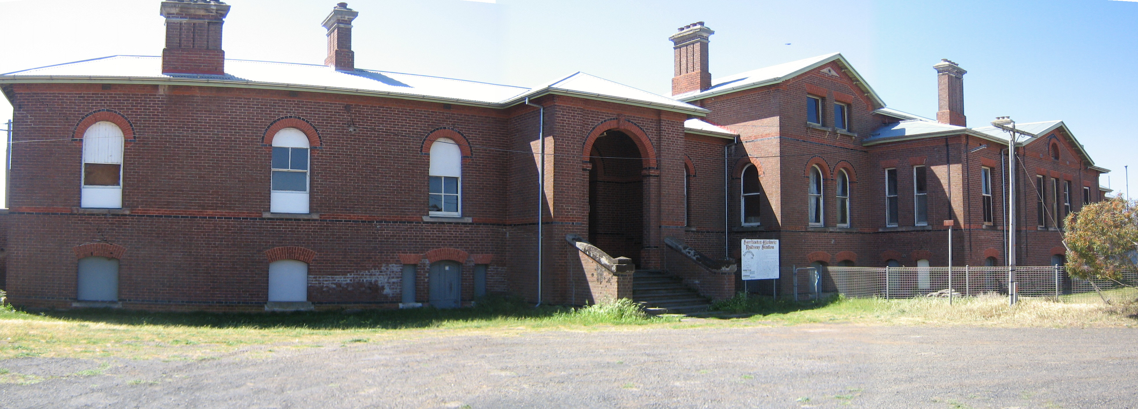 non-platform side of the historic Serviceton railway station